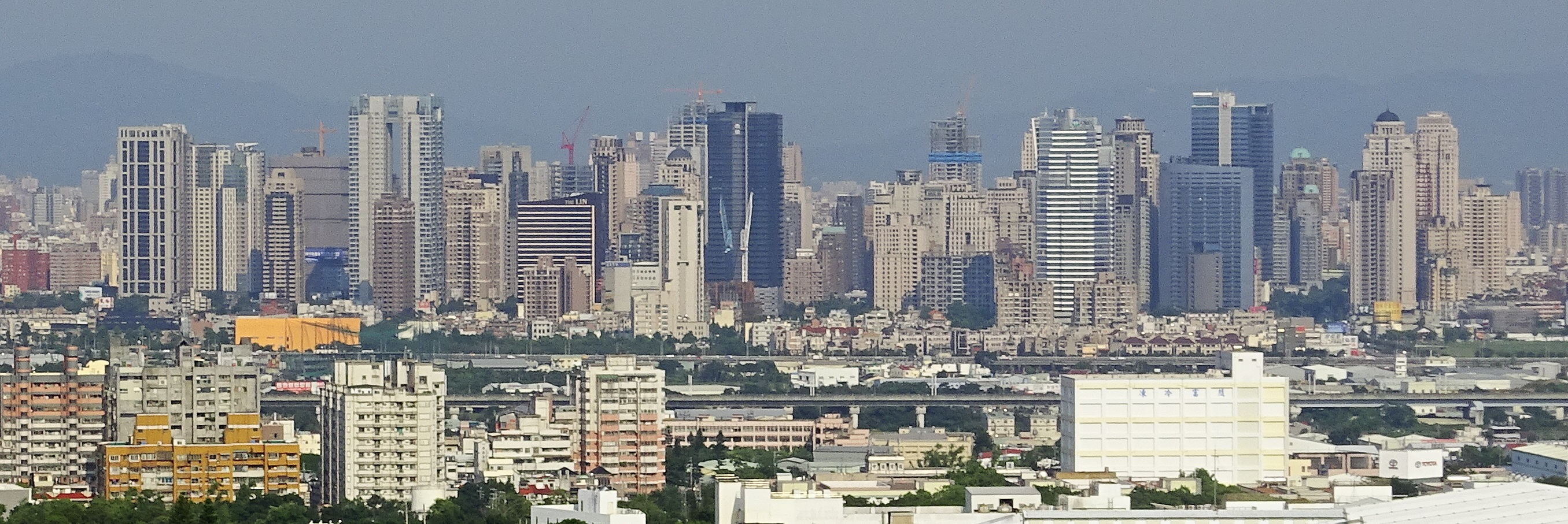 2016年7月25日 臺中市新市政專用區 全景